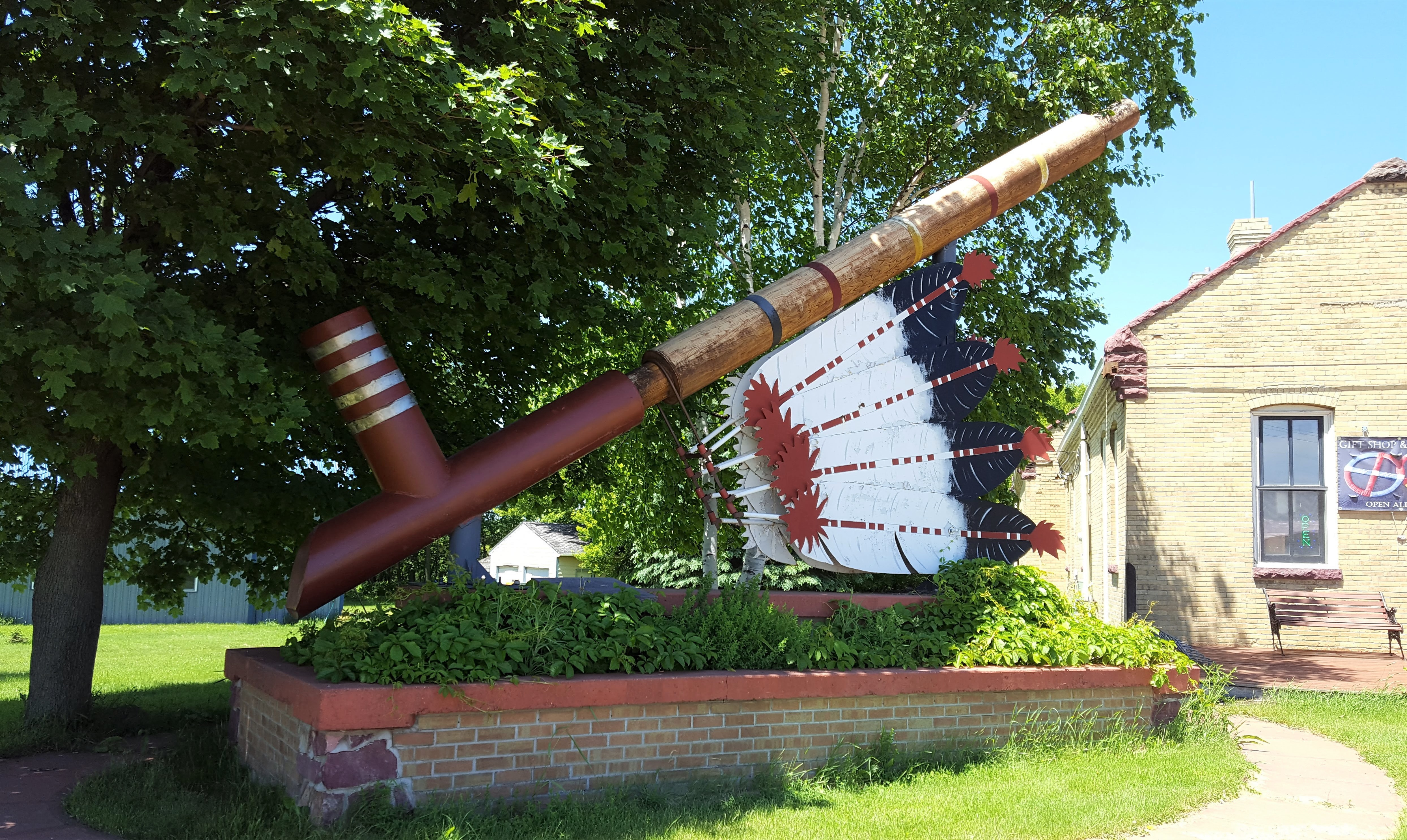 A large steel replica of a peace pipe, located in front of the historic Rock Island Railroad depot in Pipestone, Minnesota.